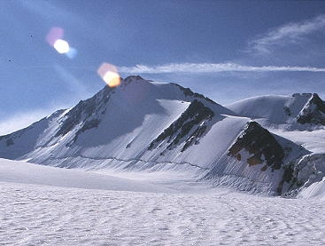 North face of the Hintere Schwärze (3628 m), Ötztal Alps, Tyrol, Austria